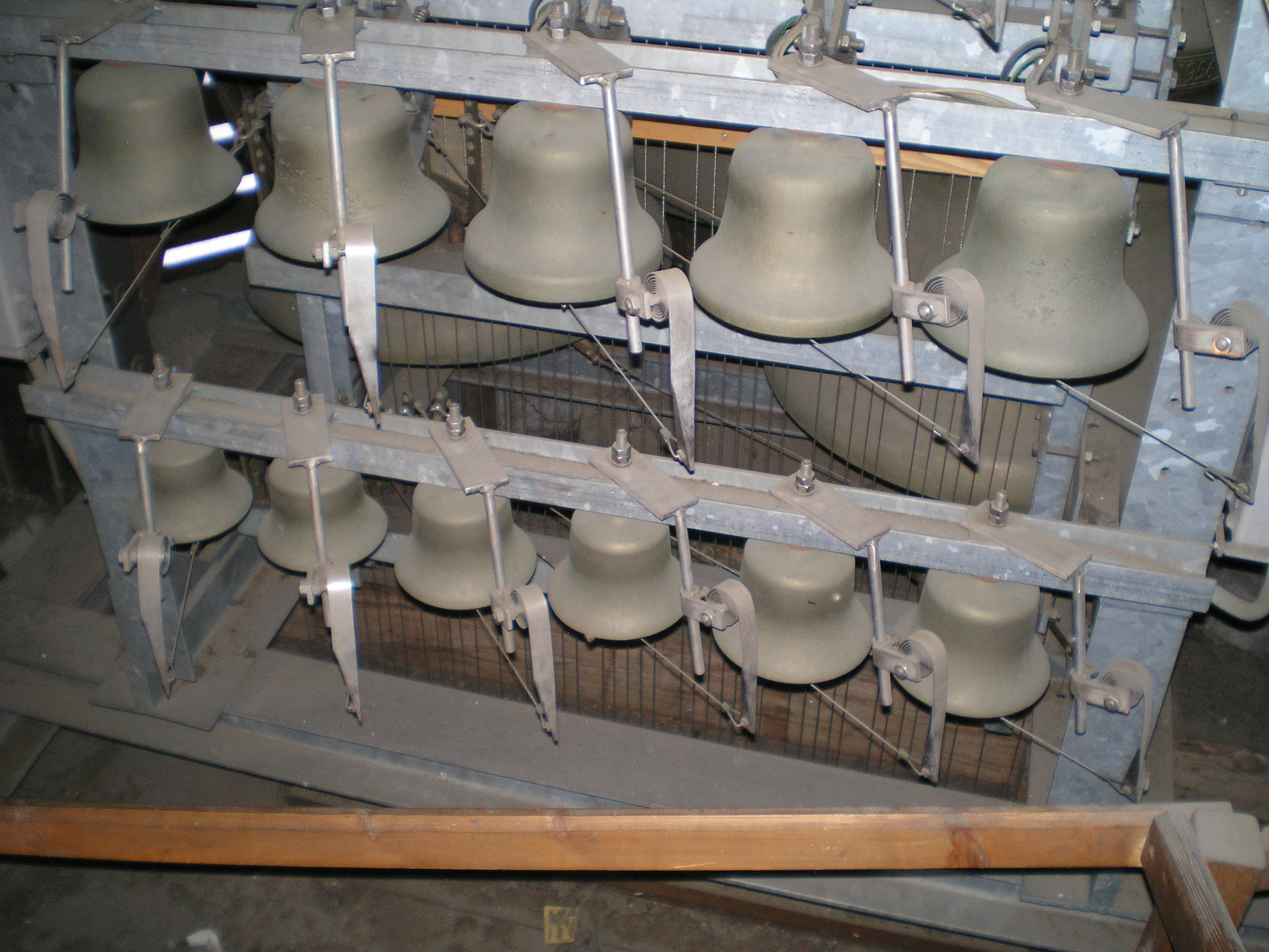 Bells of the carillon in the tower of Alte Nikolaikirche in Frankfurt am Main, Germany.